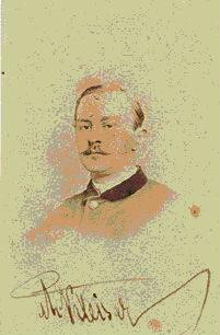 Joseph Kleiser von Kleisheim, Chief minister of the Principality Fürstenberg 1801-1814